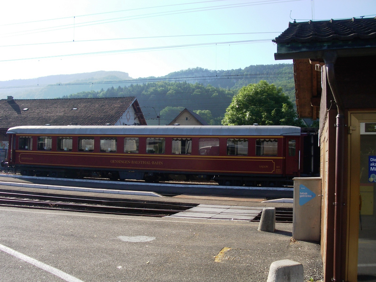 Dining car WR 413 of Oensingen Balsthal railway in Balsthal SO, Switzerland